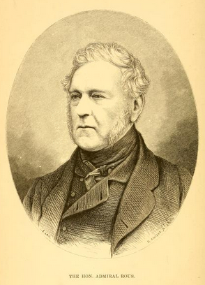 Illustration of Admiral Henry John Rous (23 January 1795 – 19 June 1877) taken from Rice's History of the English Turf